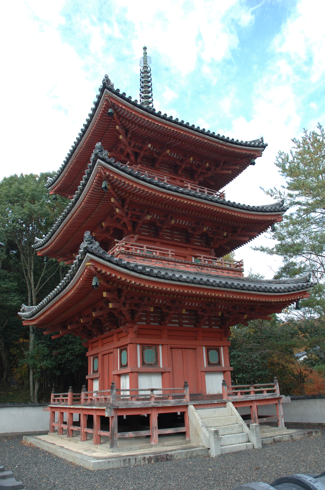 Three-storied pagoda of Hofuku-ji(Japan's national important cultural property), Soja City, Okayama pref., Japan